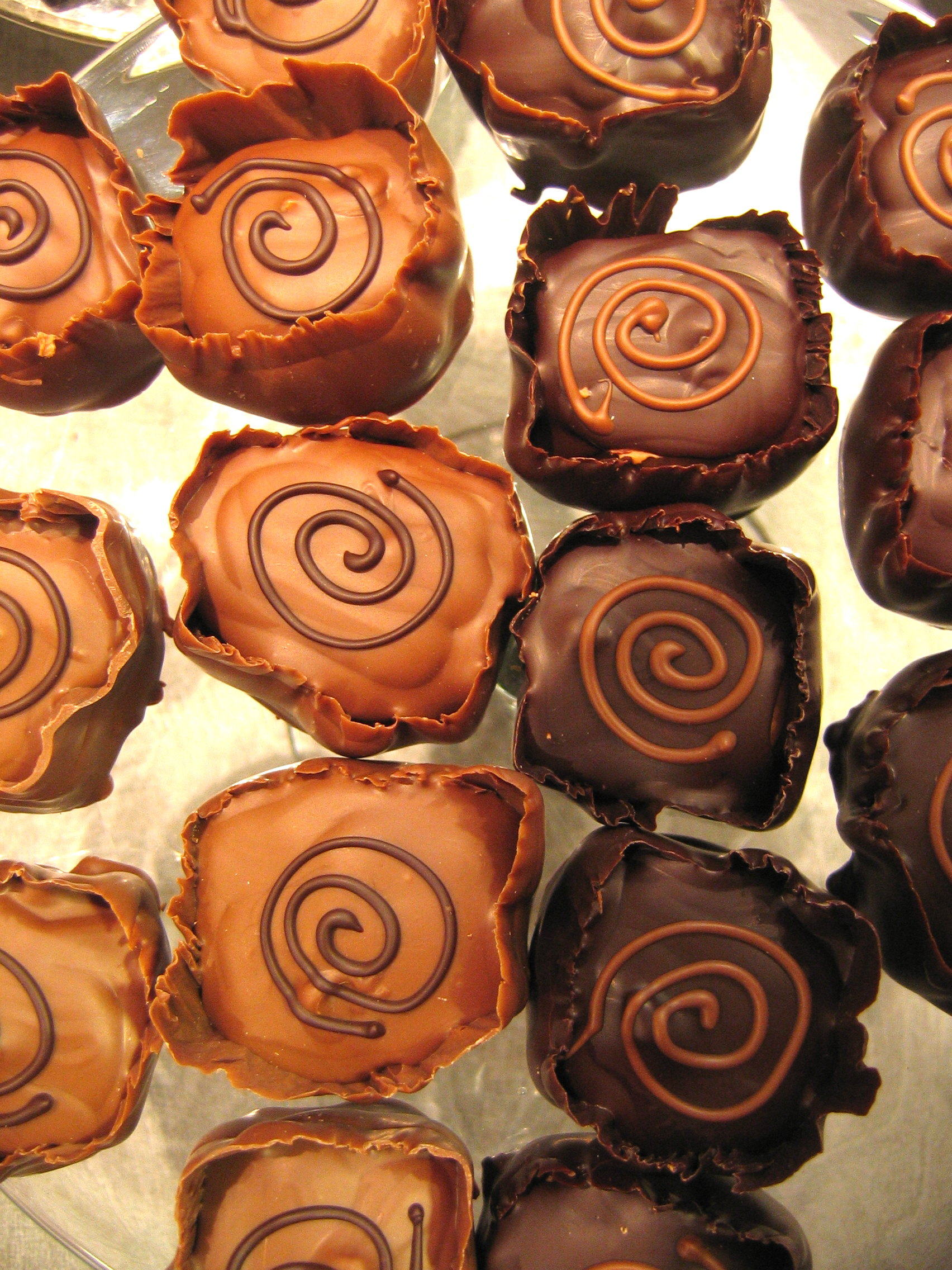 Bonbons from a Dutch chocolateriebonbon